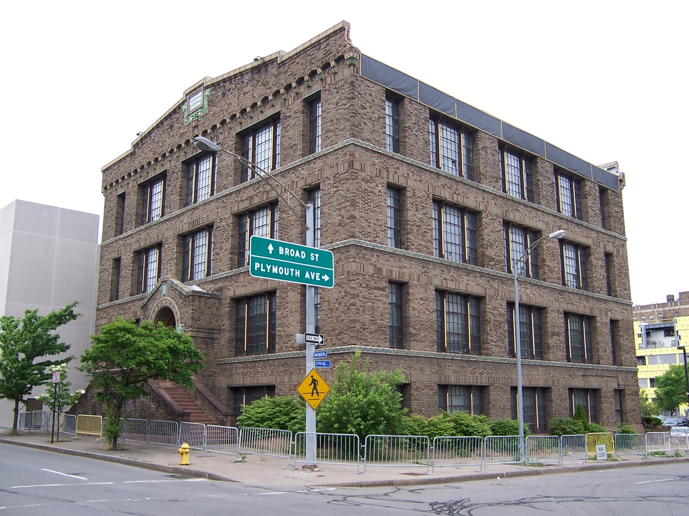 The Bevier Memorial Building in downtown Rochester, New York. It was built for the Rochester Athenaeum and Mechanics Institute, now Rochester Institute of Technology, in 1910. It is listed on the National Register of Historic Places.